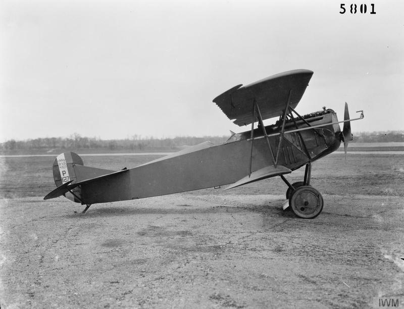 German Aircraft of the First World War Fokker D.VII single-seat fighter biplane. Serial number P 127. This particular aircraft was taken to America after the Armistice and flown experimentally at Wright Airfield, USA